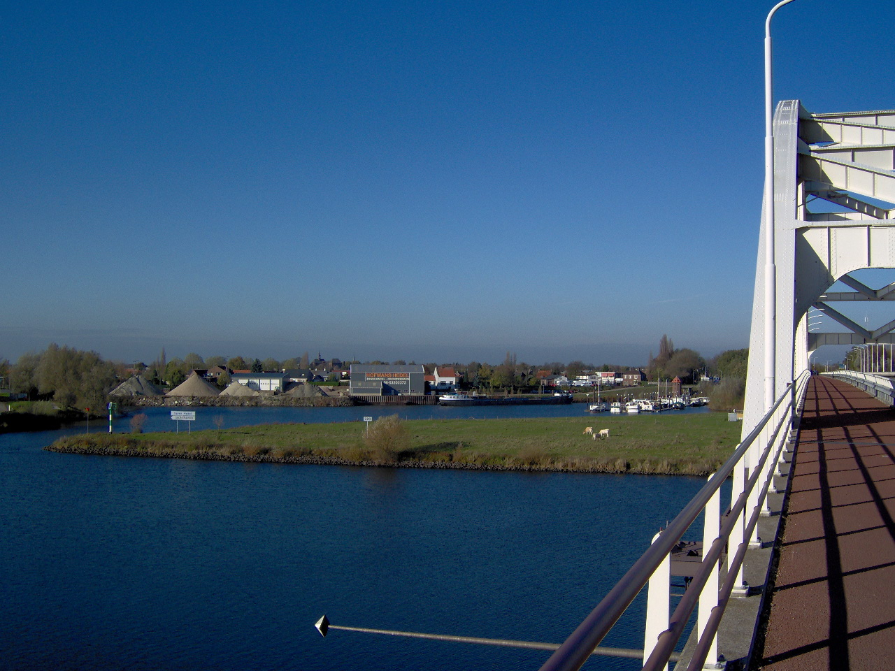 Hedel